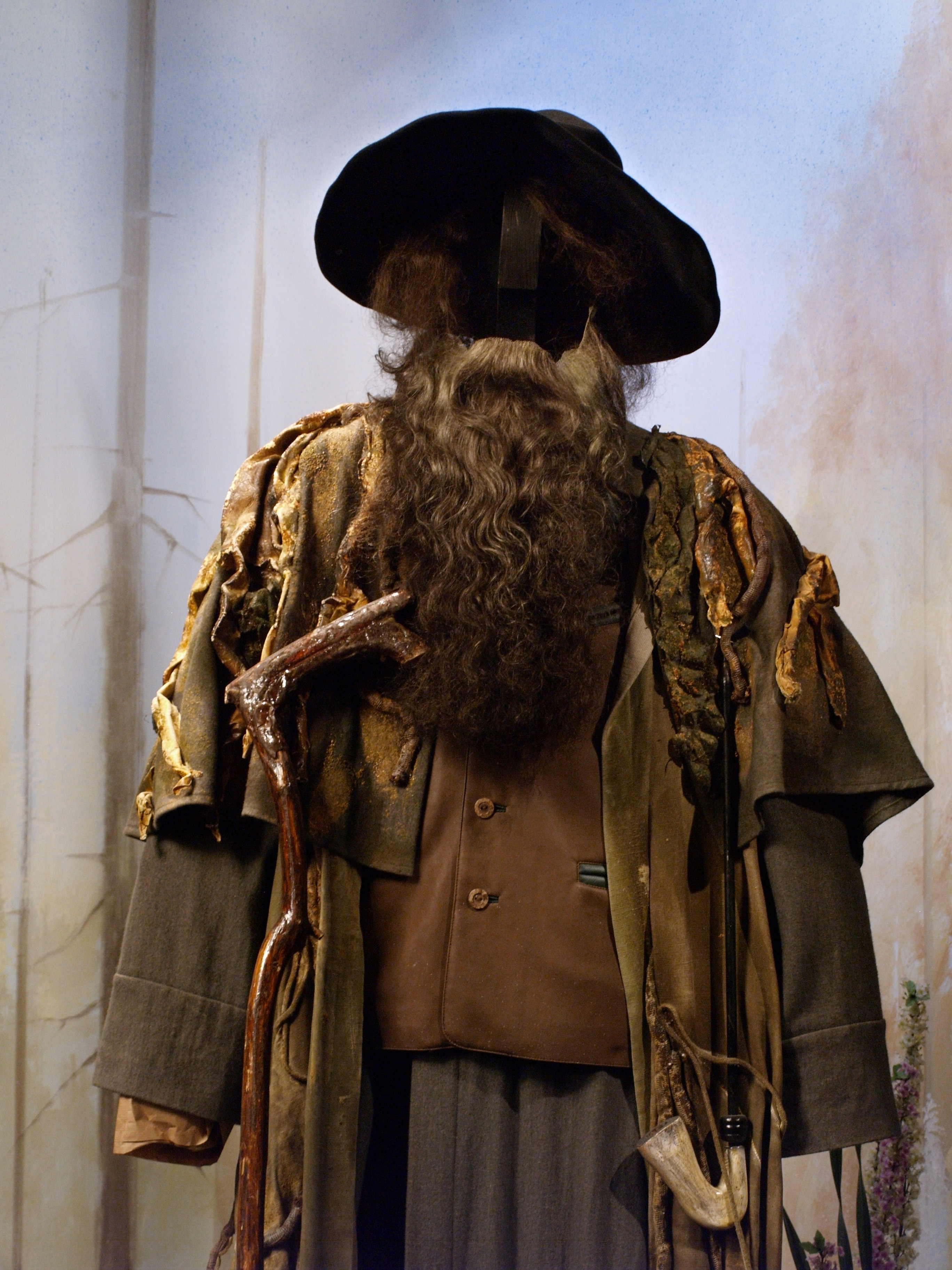 Costume of Krakonoš (Rübezahl) from a television fairy-tale by Czech Television